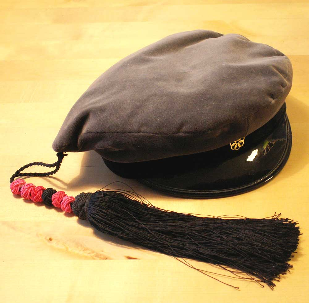 Teknologmössa. A hat worn by students at the Royal Institute of Technology